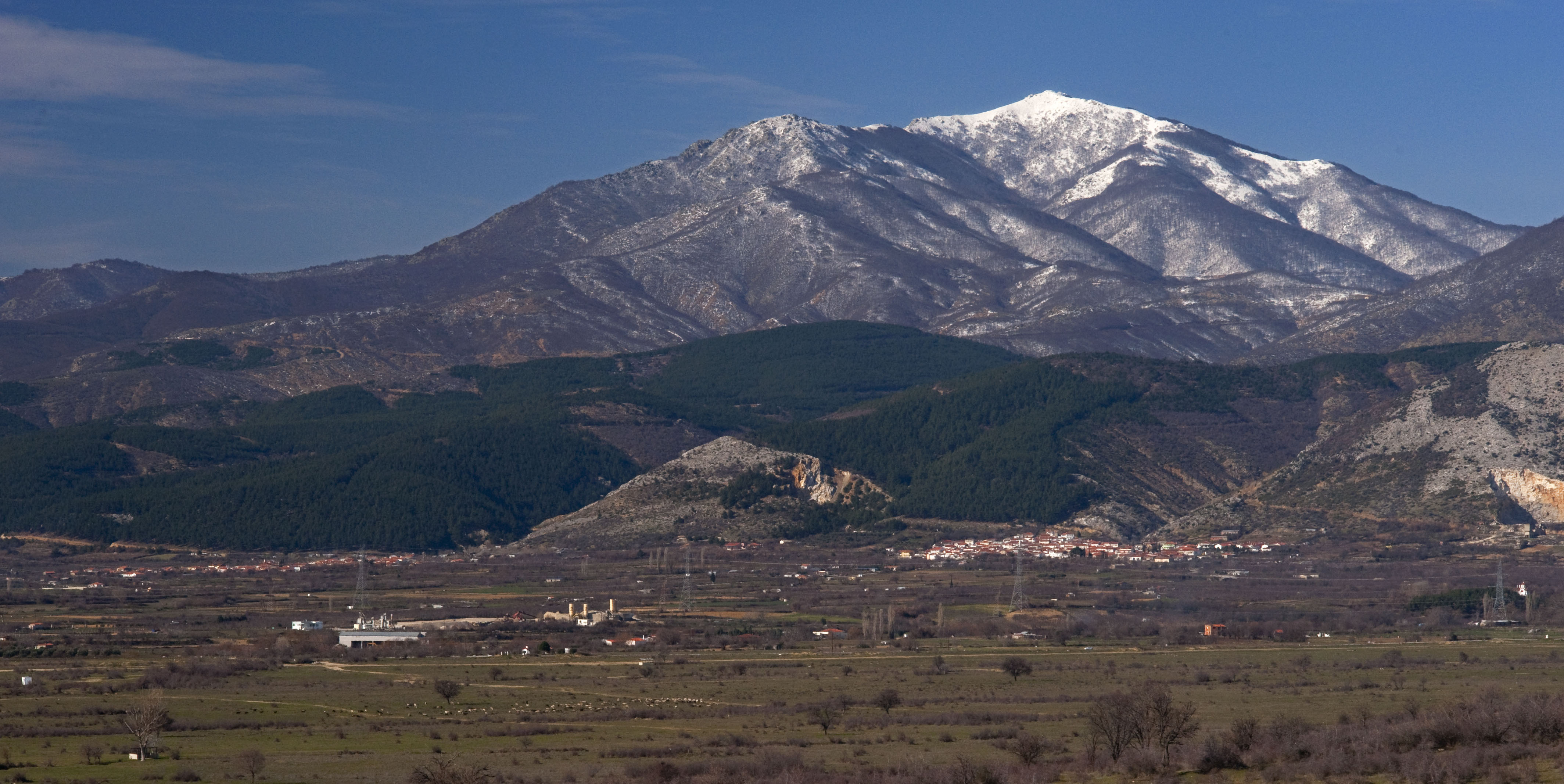 Papikio mountain (landscape) - village 'Simbola', Rhodope, West Thrace, Greece.